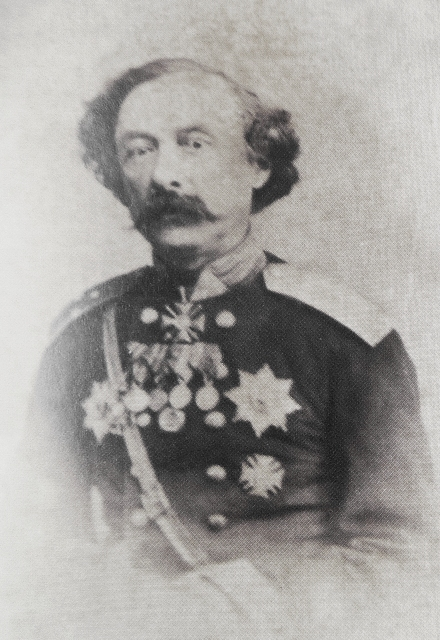 Grigol Dadiani (Kolkhideli)